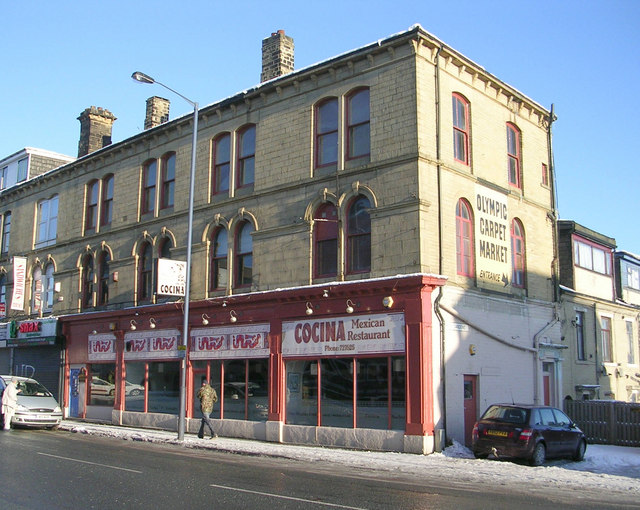 Cocina Mexican Restaurant - Manningham Lane